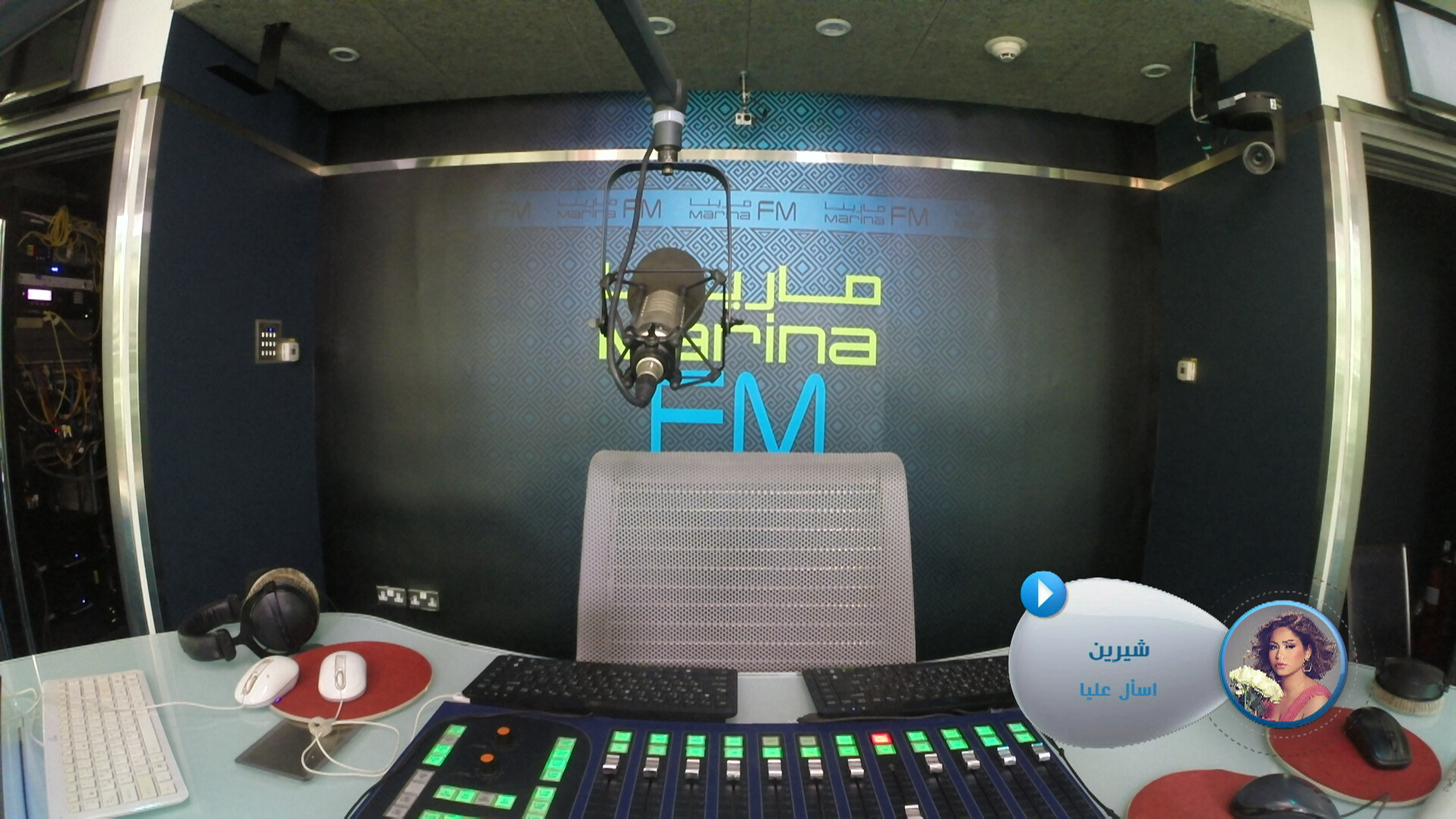 MarinaFM 90.4 Studio